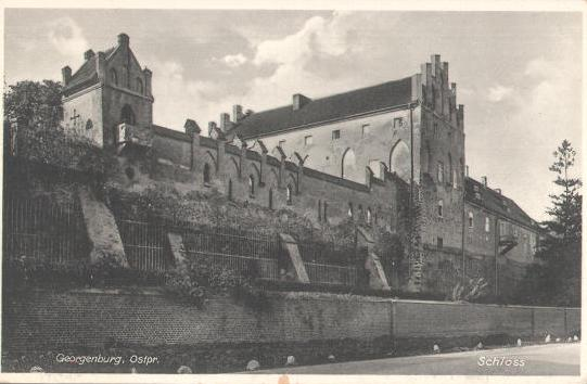 Mayovka (before 1945)Georgenburg